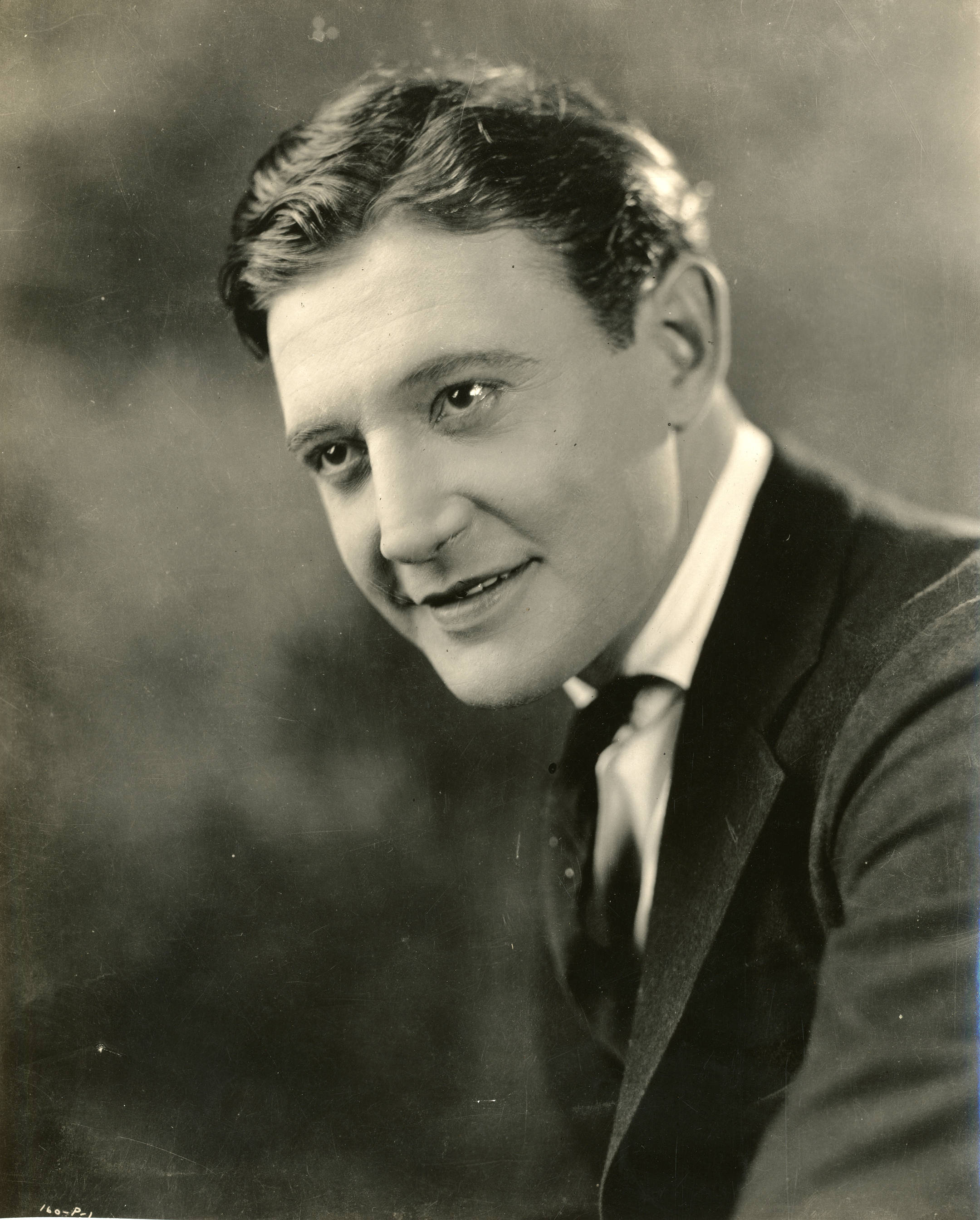 Film actor Richard Dix. Subjects: actors